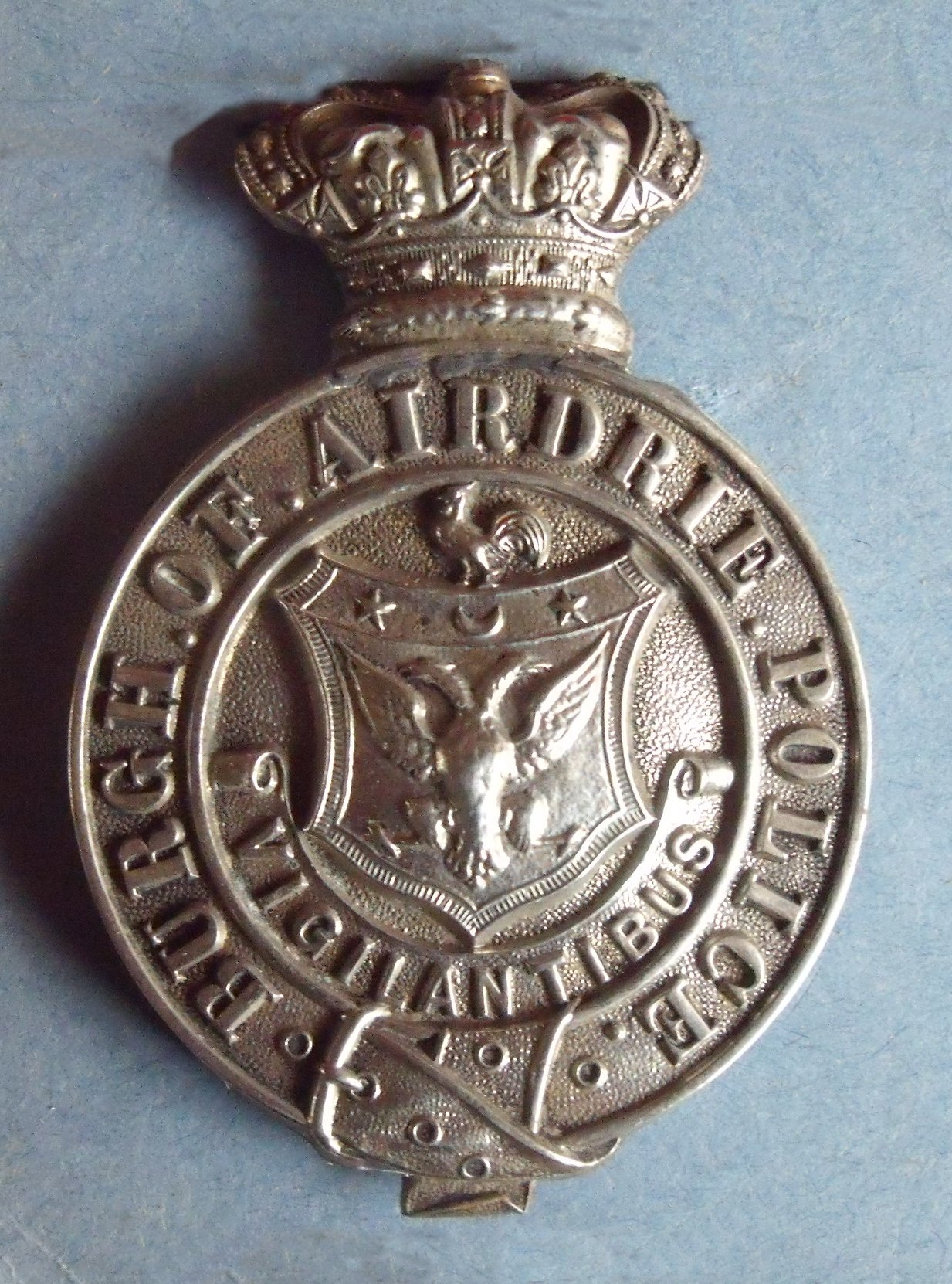 Dave Conner BADGE - Scotland - Burgh of Airdrie Police helmet badge (Victorian Crown) pre 1902 Part of my collection of Scottish Police insignia Airdrie was subsequently absorbed in the 1960s by Lanarkshire constabulary, which became part of Strathclyde police in 1975